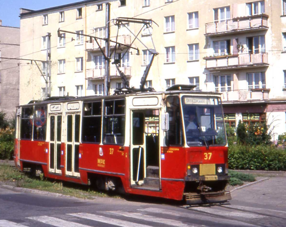 PKO advertising, as seen on yellow car 44 is the background to similar Konstal 805N car no 37. Linia nr 1 37 was the first Konstal 805N tram in Grudziadz , delivered in 1980, and is looking in super condition ten years later. The narrow gauge Konstal 805N fleet of Grudziadz is listed here